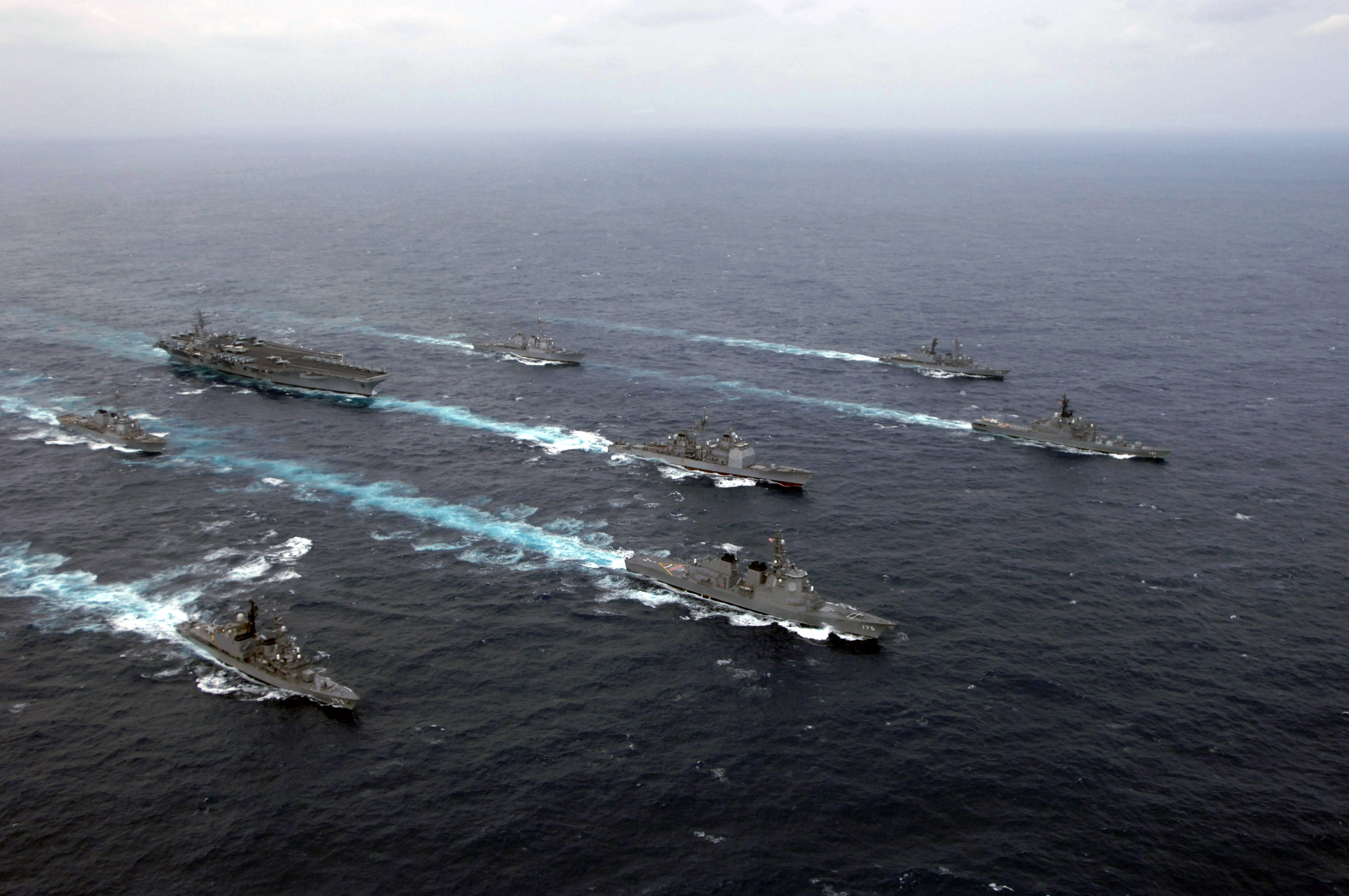 U.S. Navy Ships assigned to Nimitz Class Aircraft Carrier USS Ronald Reagan (CVN 76) Carrier Strike Group, sail with Japanese Maritime Self Defense Force ships, during a photo exercise while underway in the Philippine Sea on March 18, 2007. The Ronald Reagan Carrier Strike Group, and its embarked Carrier Air Wing 14, are deployed in support of operations in the 7th Fleet area of responsibility. (U.S. Navy photo by Chief Mass Communication Specialist Spike Call) (Released)